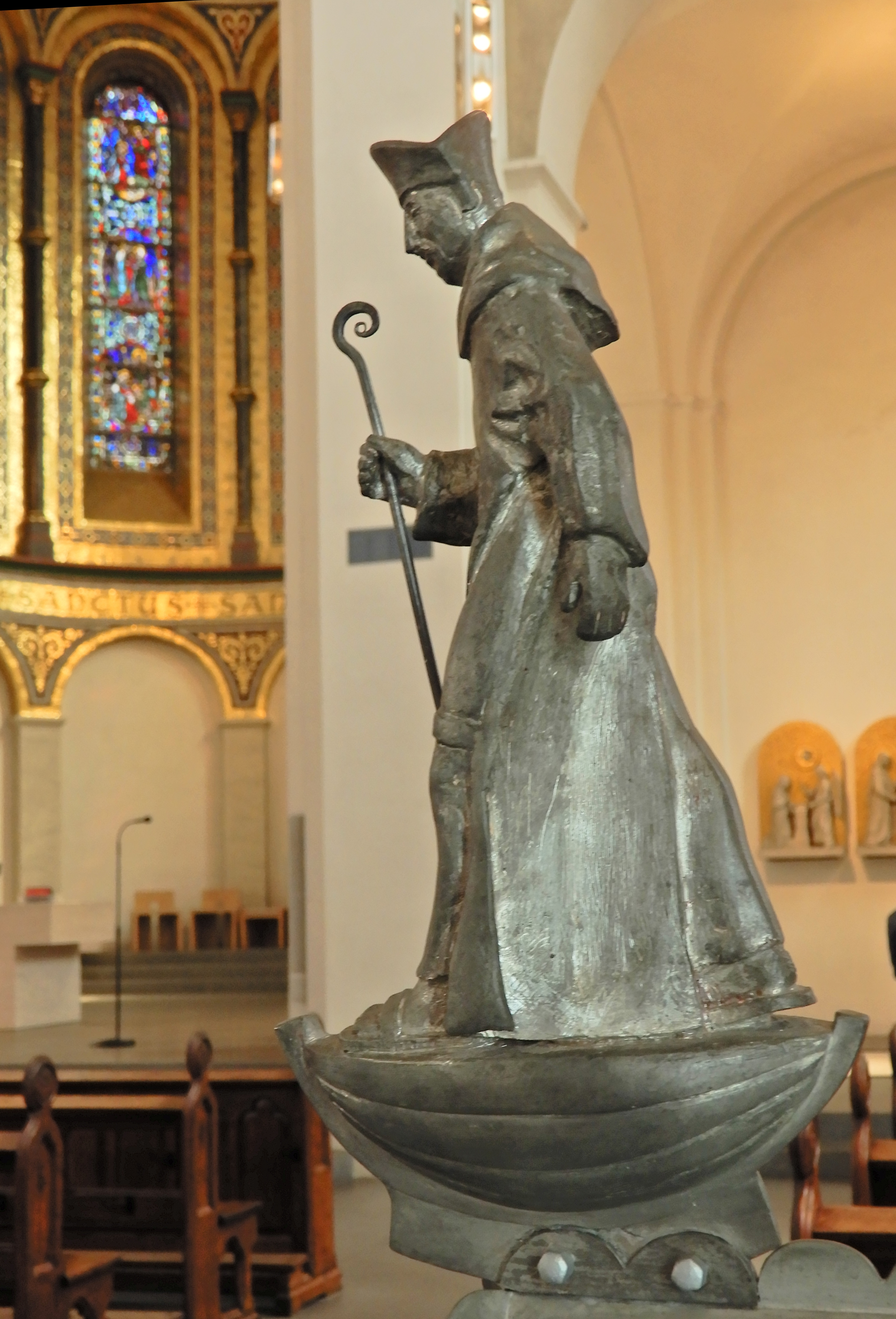 St. Ansgar Reliquary (Detail, Virgin Mary Cathedral, Hamburg